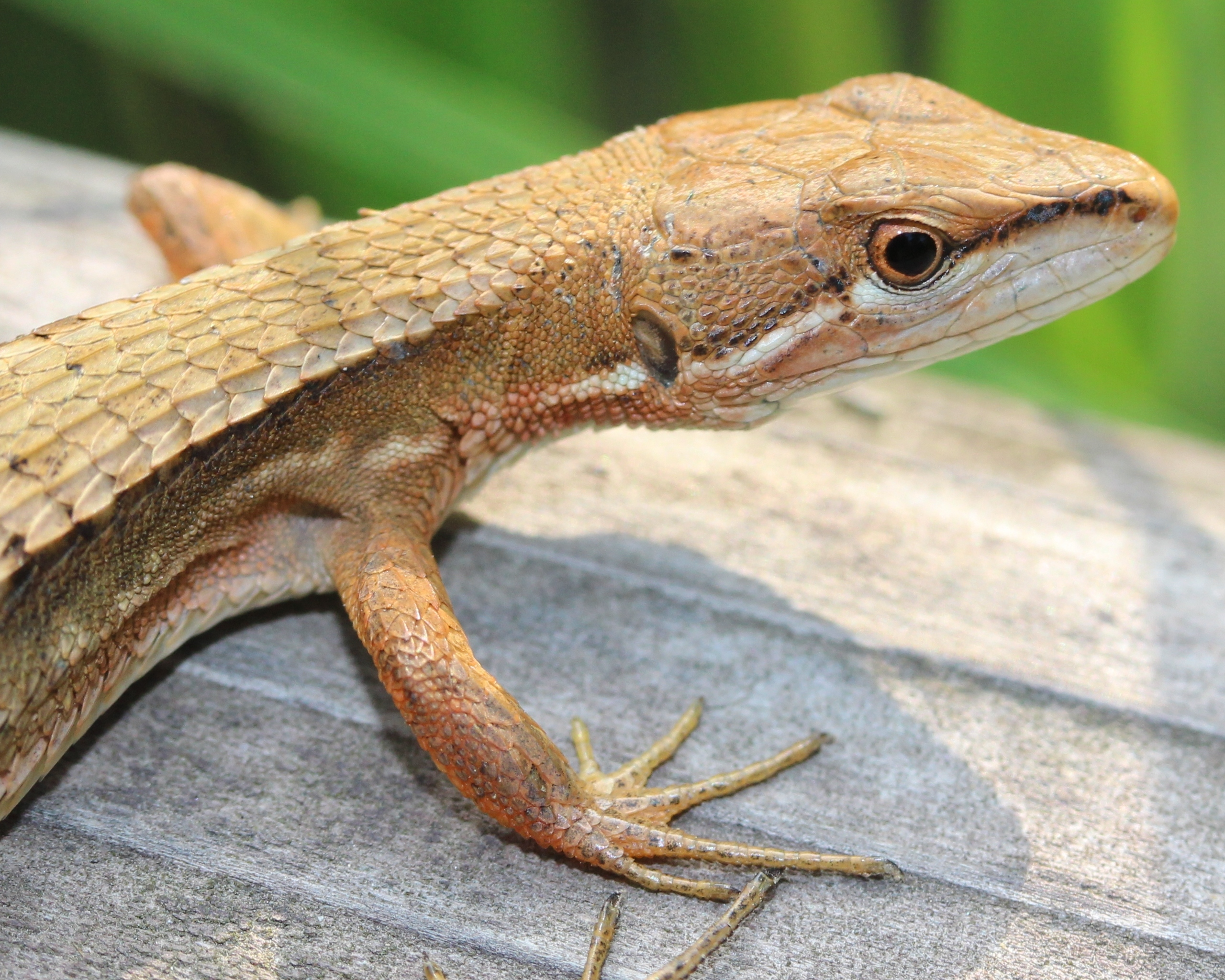 Head of Takydromus tachydromoides (Japanese grass lizard), in Kaizu, Gifu prefecture, Japan.